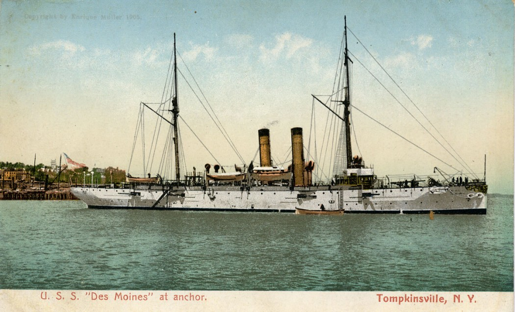 USS Des Moines (C-15), a Denver-class cruiser in service from 1904 to 1921